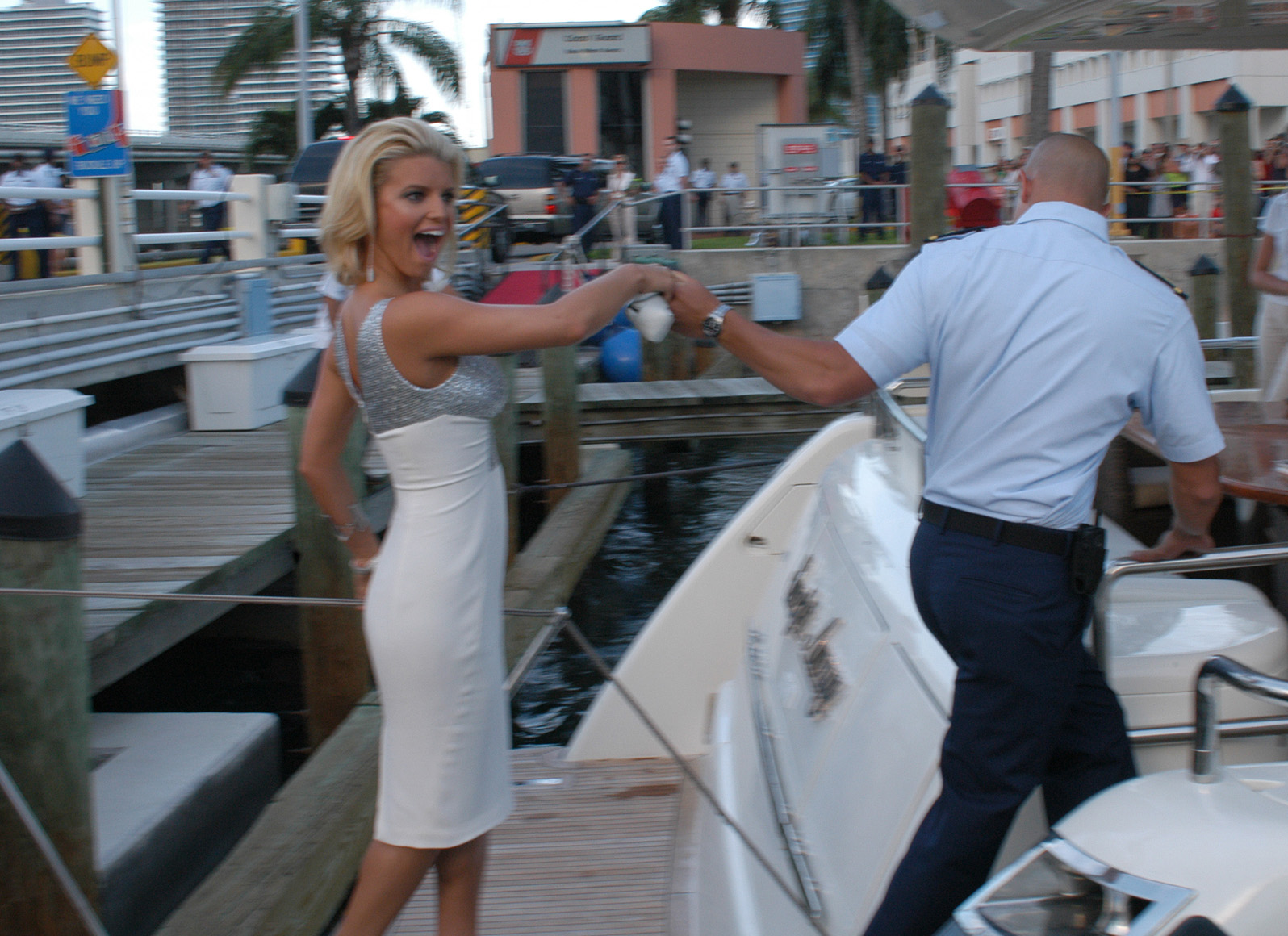 MIAMI (Aug. 29, 2004) -- MTV 2004 Video Music Awards performer Jessica Simpson poses for a picture at ISC Miami. USCG photo by PA2 Anastasia Burns.